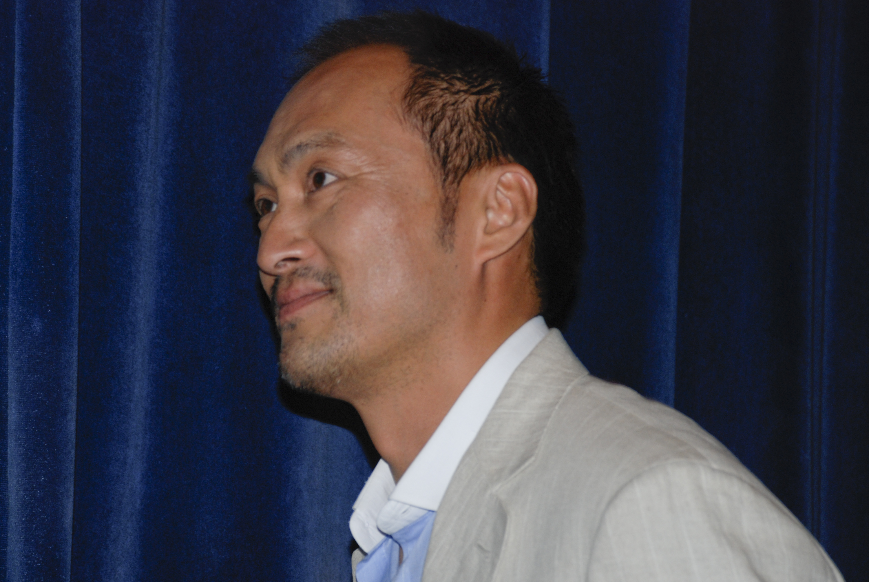 At the NYC opening of "Memories of Tomorrow"